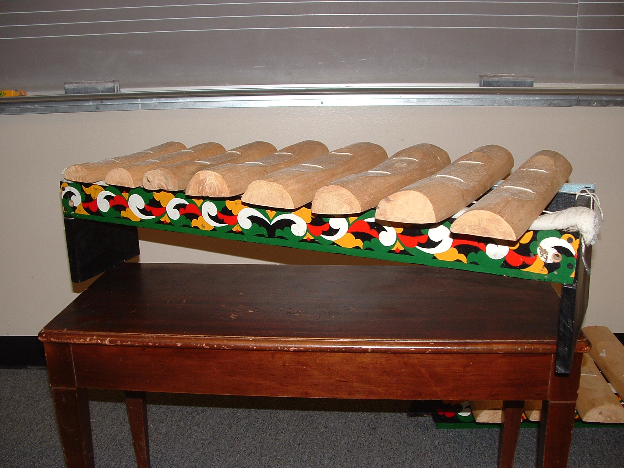 The kulintang a kayo is a Philippine xylophone with eight tuned slabs arranged horizontally atop a wooden antangan (rack). This instrument in particular is used by Master Danongan Kalanduyan at San Francisco State University to teach his kulintang class.